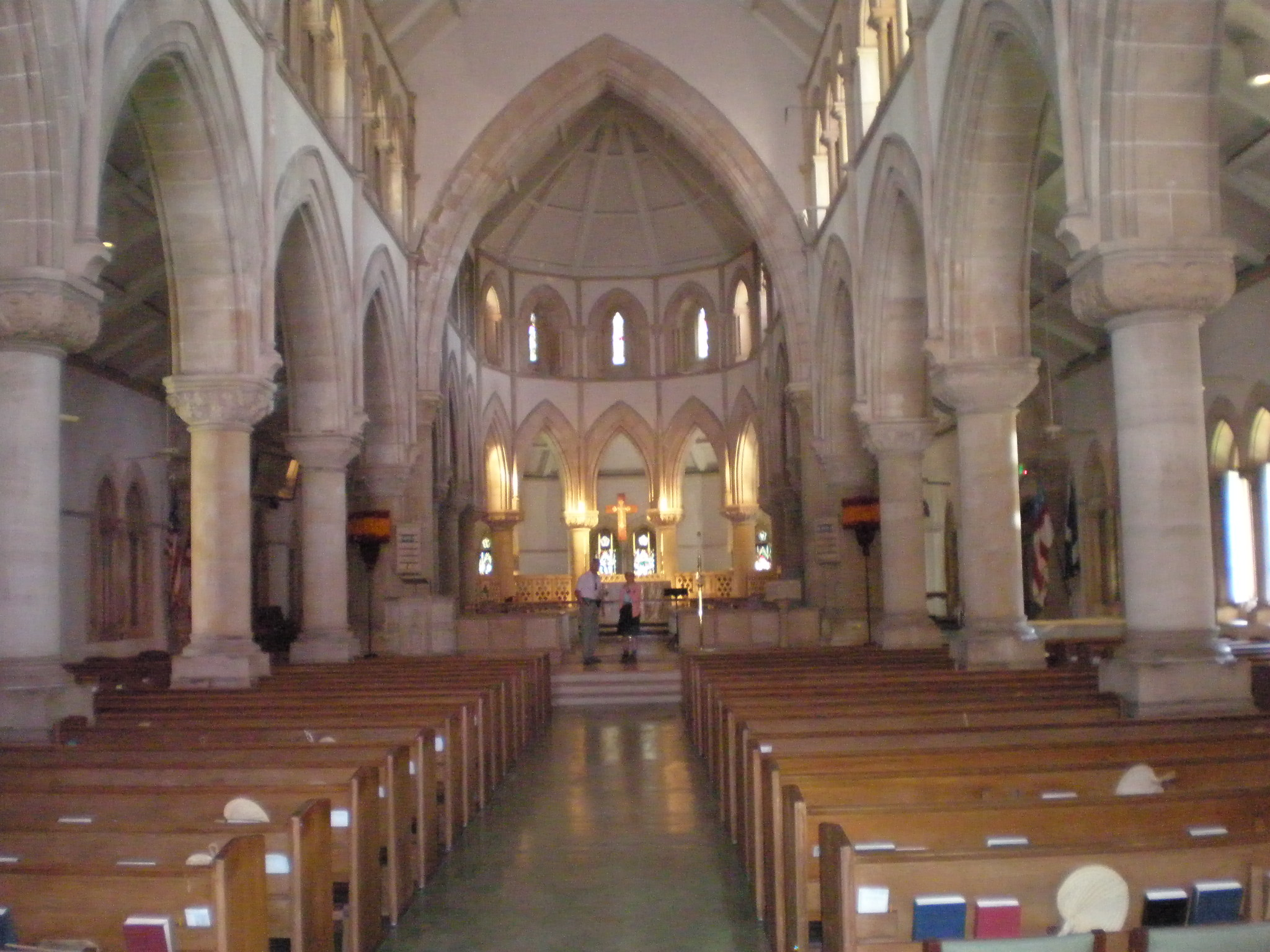 Interior of nave, St. Andrew's Cathedral, Honolulu, Hawaii, on National Register of Historic Places